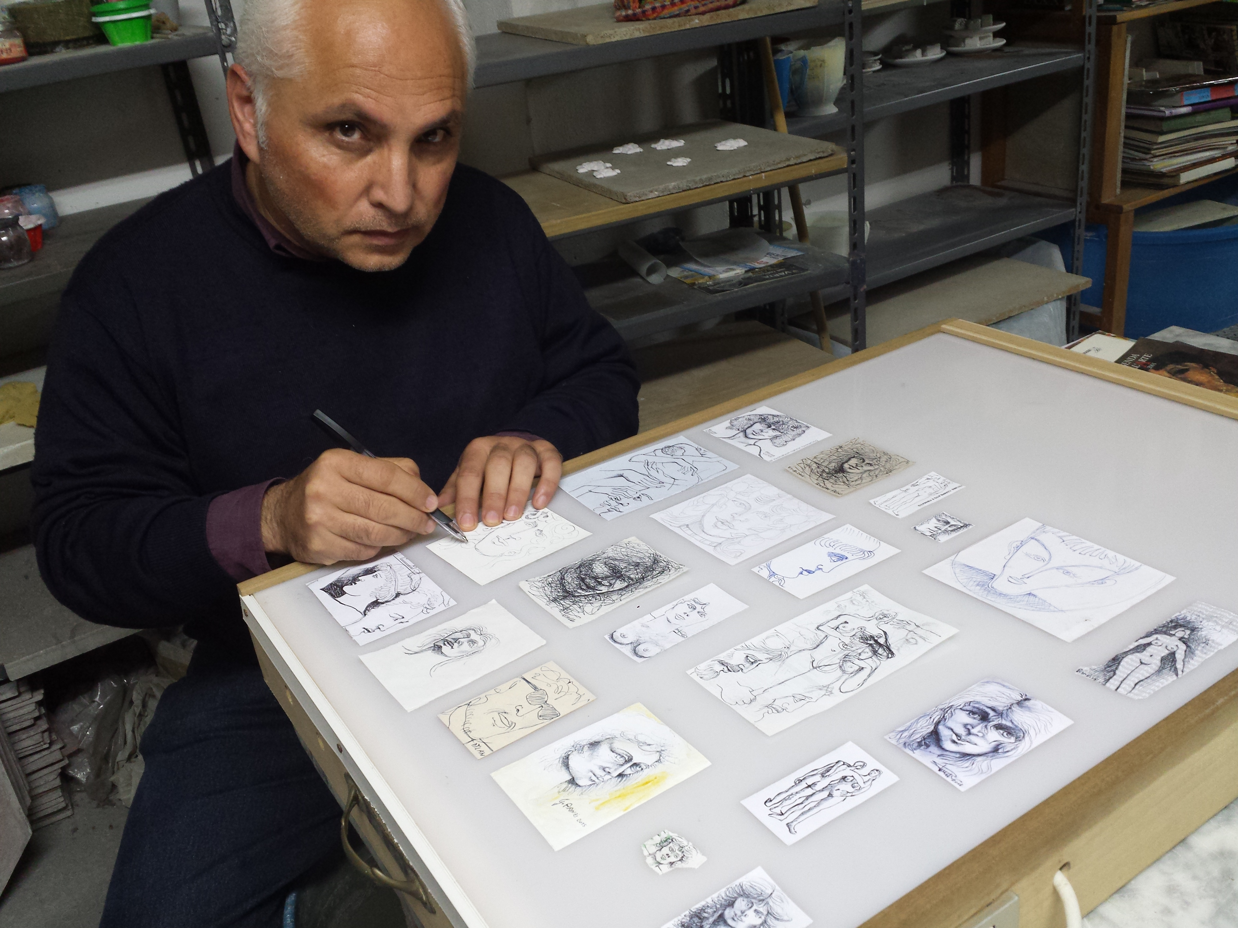 Giuseppe Prinzi nel suo studio d'Arte - Dicembre 2015 Santo Stefano di Camastra